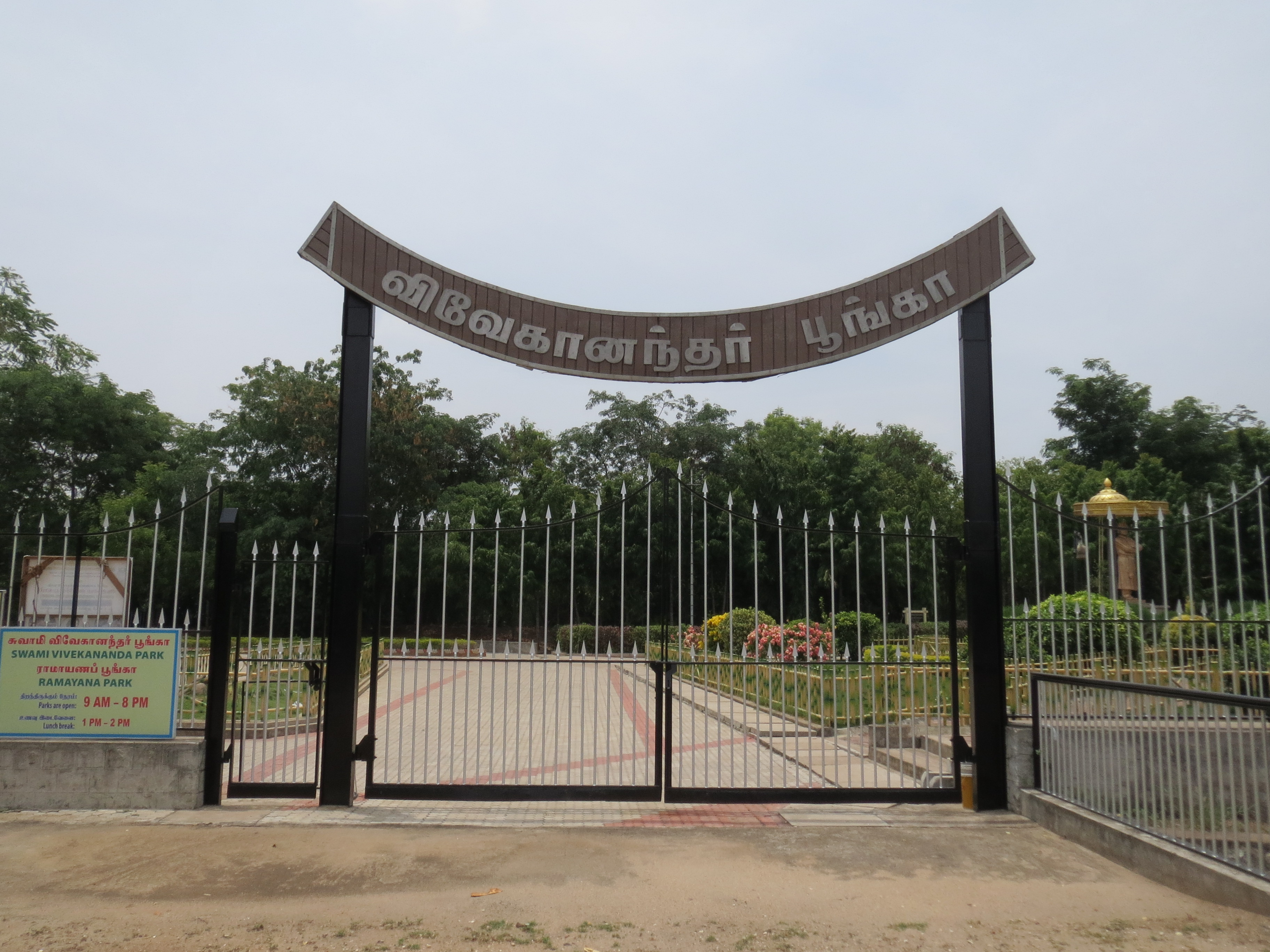 Entrance of vivekanada park at coimbatore, Tamil nadu. (Name board in tamil).